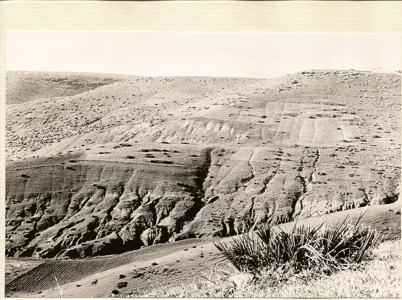 Downstream view of soil erosion with a deep gully in the clays covering the silurian shales. On right side, Chamaerops humilis